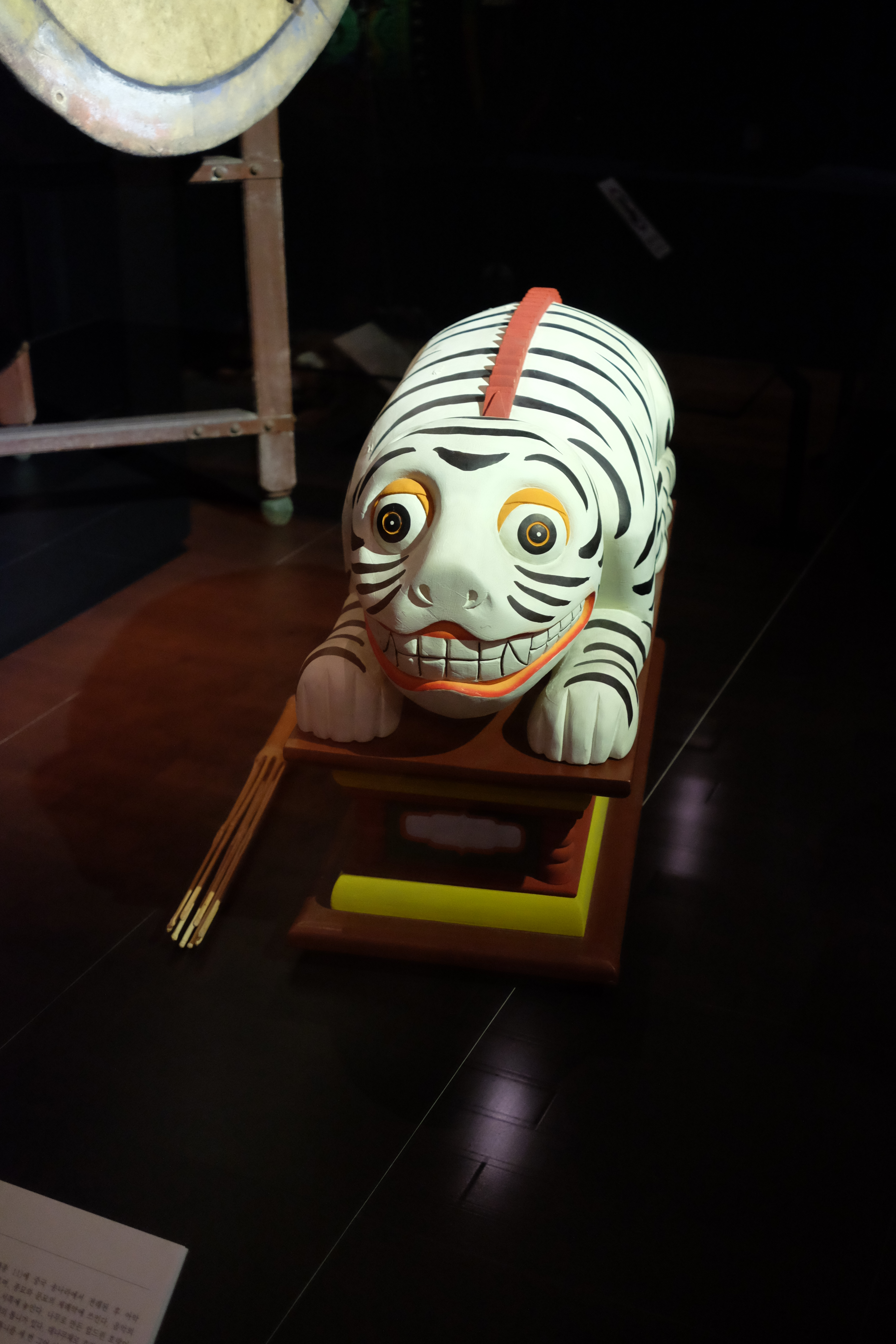 A Yu in the National Palace Museum of Korea